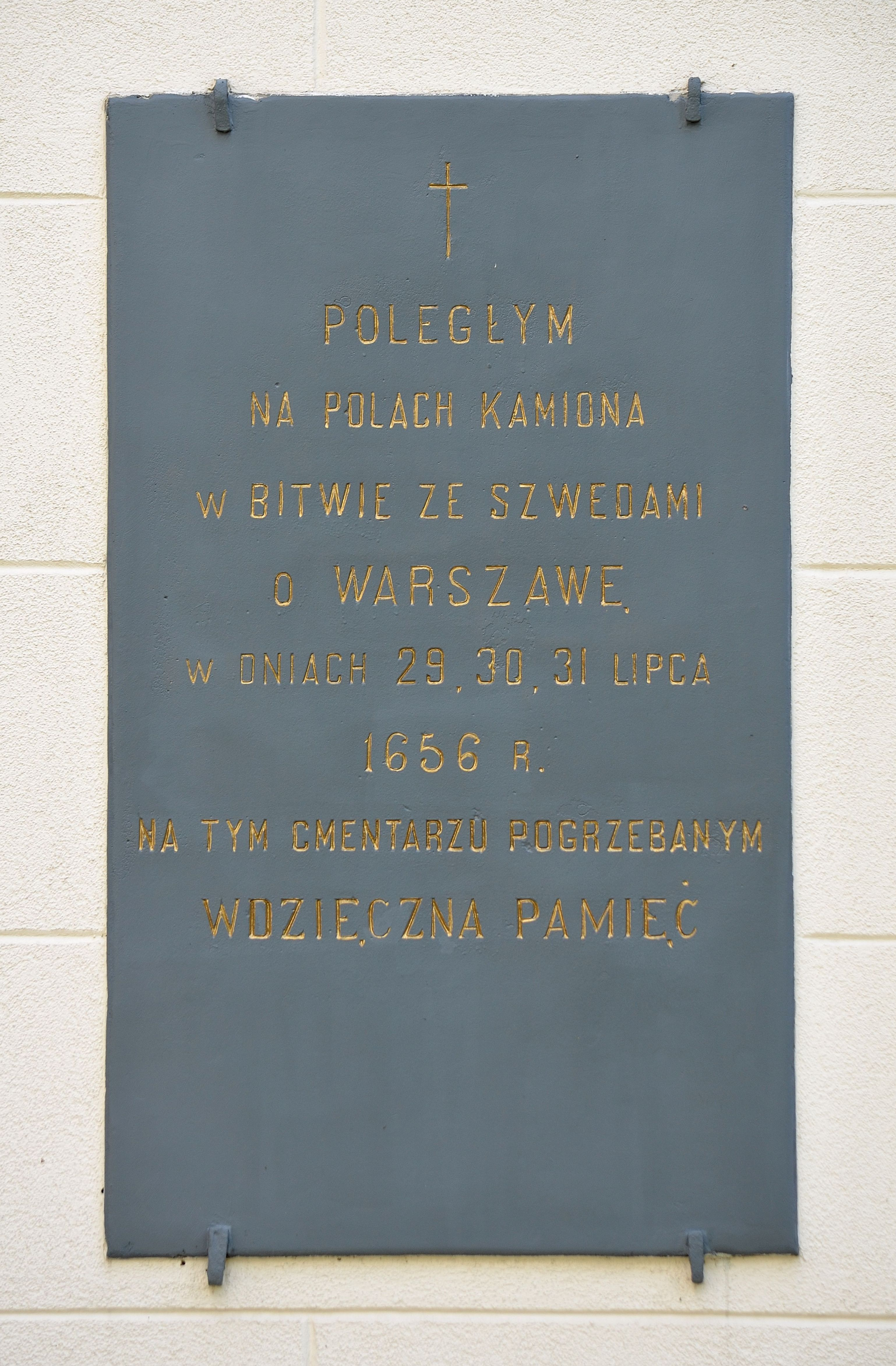 Plaque in memory of those who died at the Battle at Warsaw in 1656 on the facade on the facade of Our Lady of Victory church